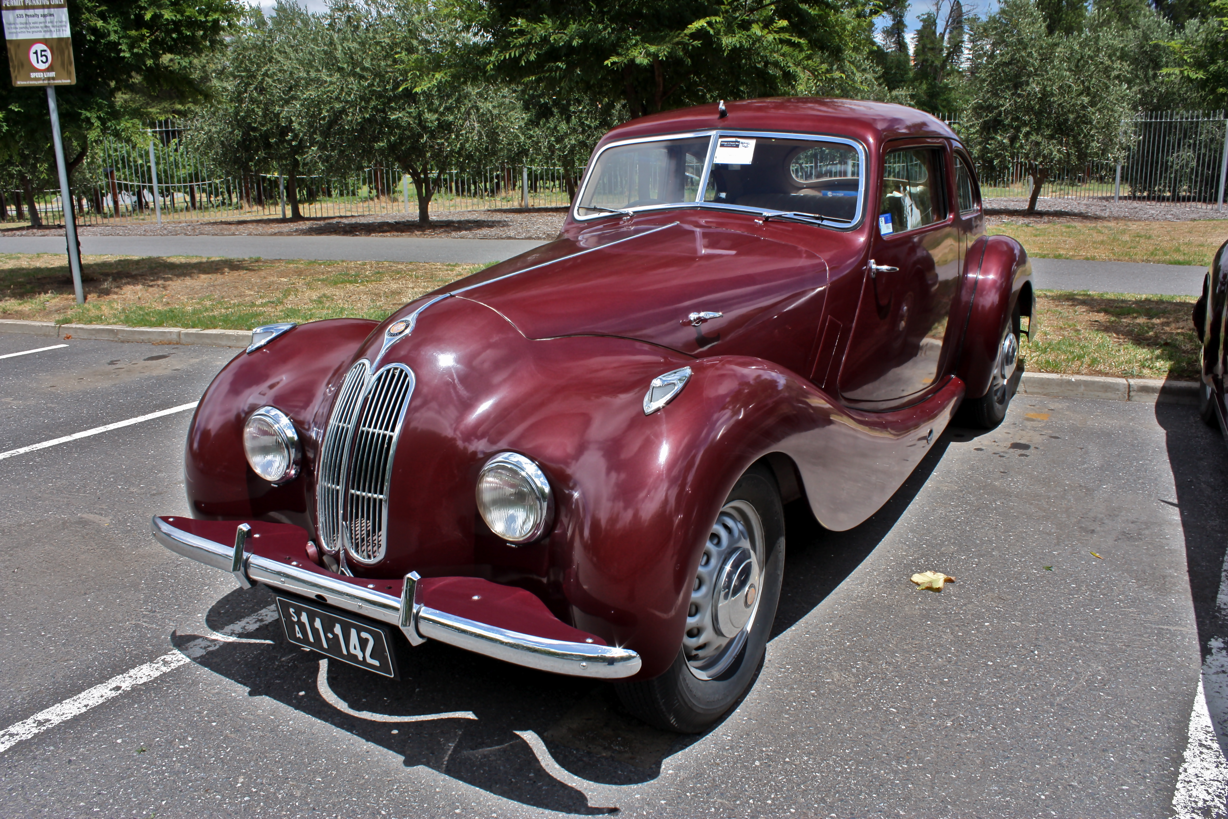 Bristol 400 at the Adelaide Botanic Gardens.